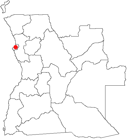 Luanda, Angola Location Map; created with the GIMP. Made by User:Acntx.